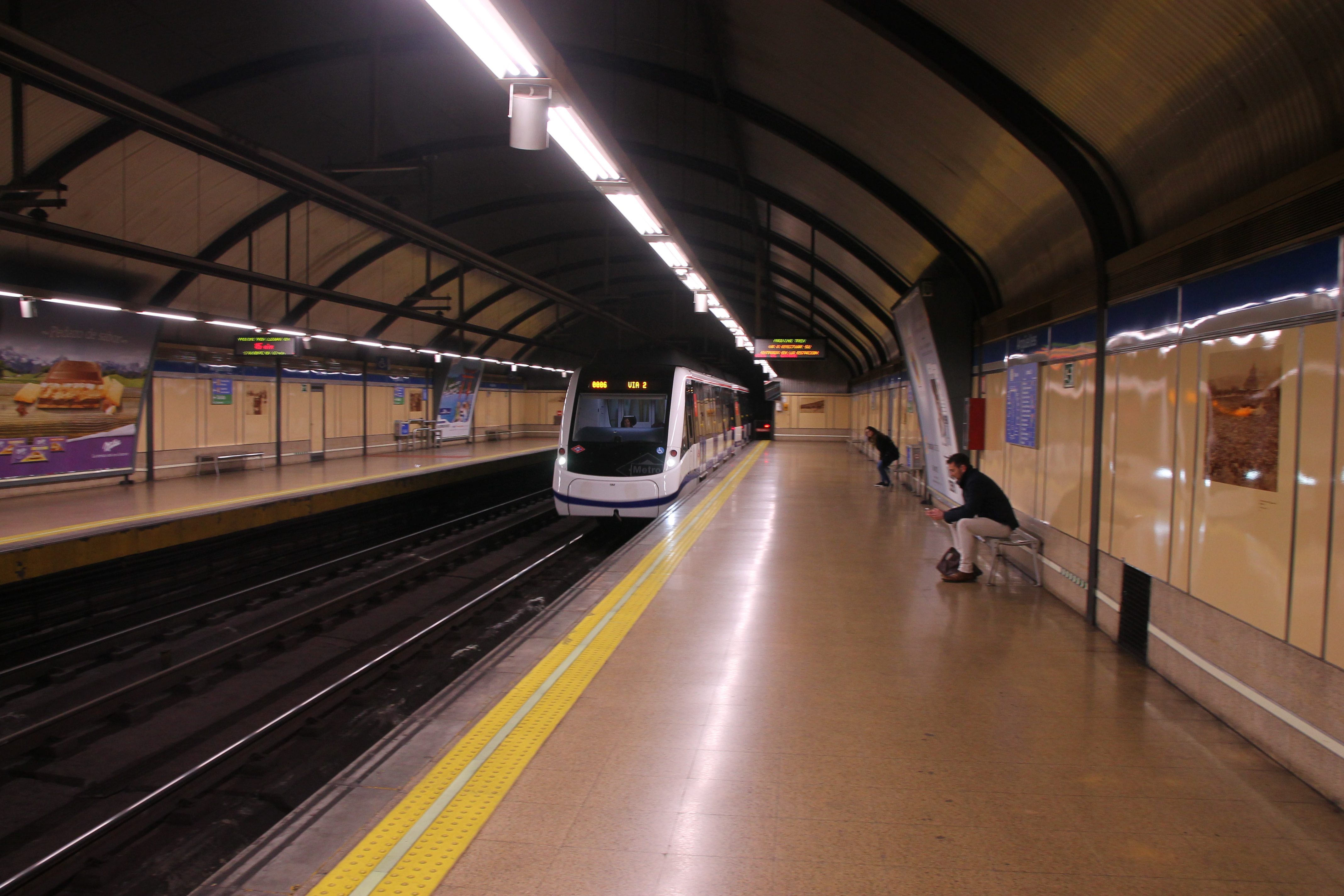 Platform of the Argüelles metro station, line 6, Madrid, train class 8400